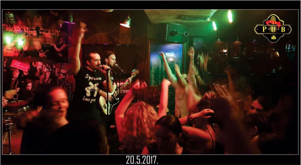 ProRocks live stage